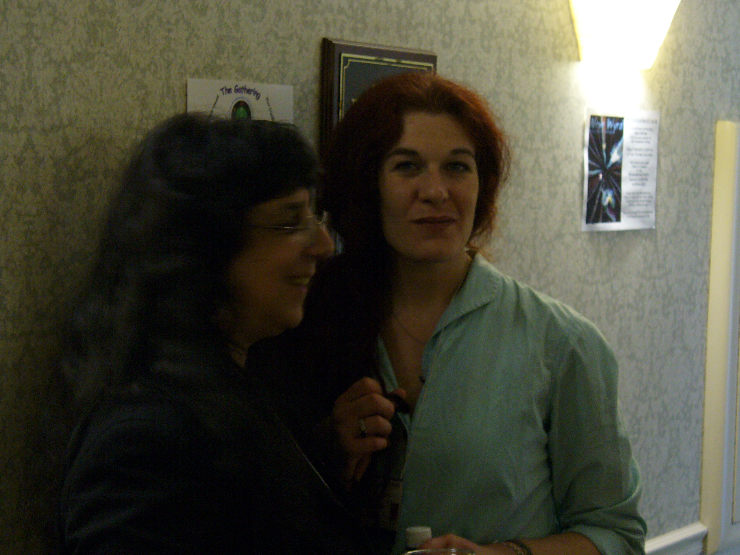 American-born English feminist author and science fiction fan Avedon Carol and American science fiction editor Sharyn November. The photographer, Patrick Nielsen Hayden, writes: "I had the pleasure of introducing them. 'You're both loud and you smoke,' I said. They instantly recognized their bond."